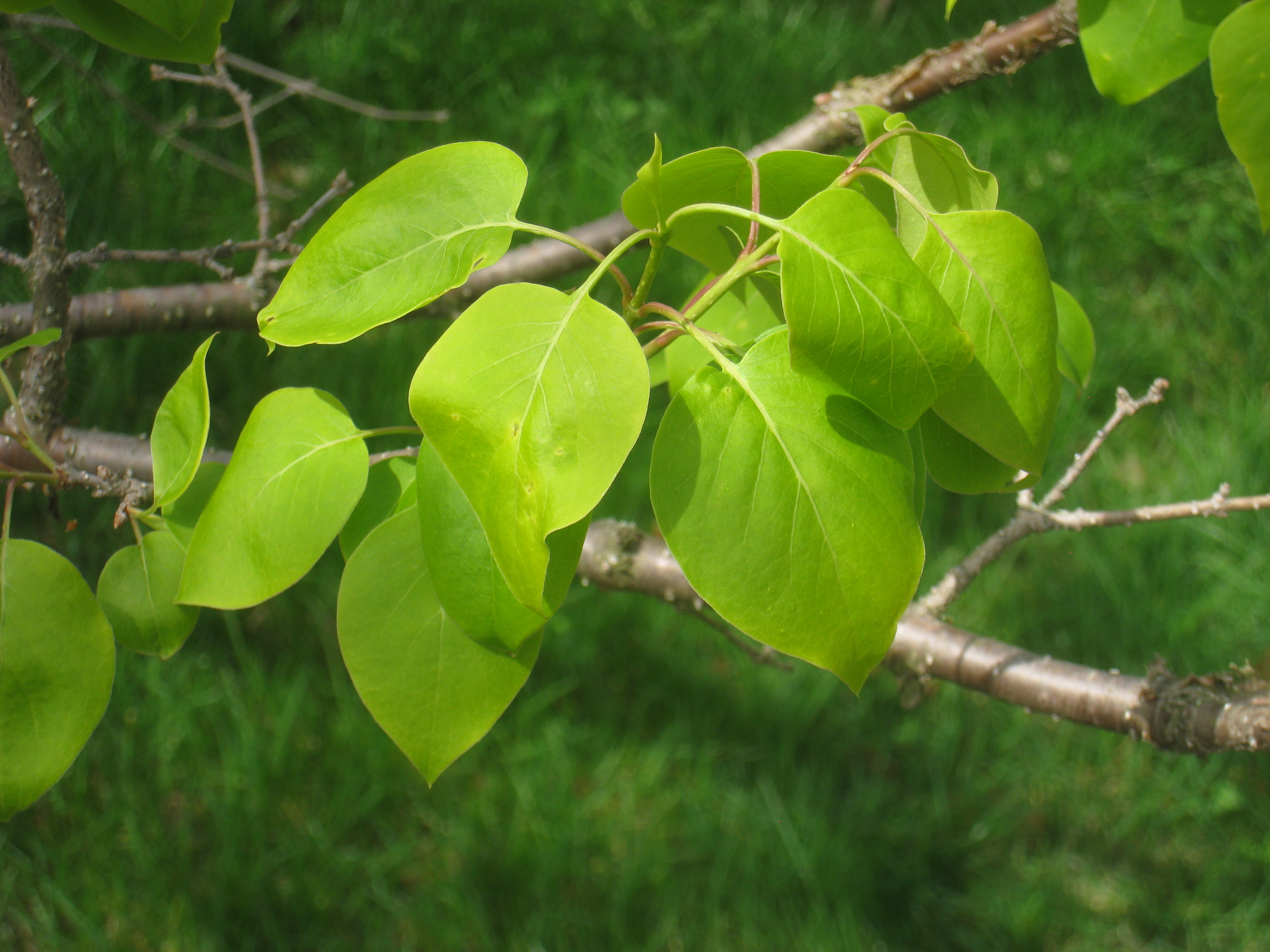 Syringa reticulata subsp. pekinensis 'Morton', Arnold Arboretum, Jamaica Plain, Boston, Massachusetts, USA.